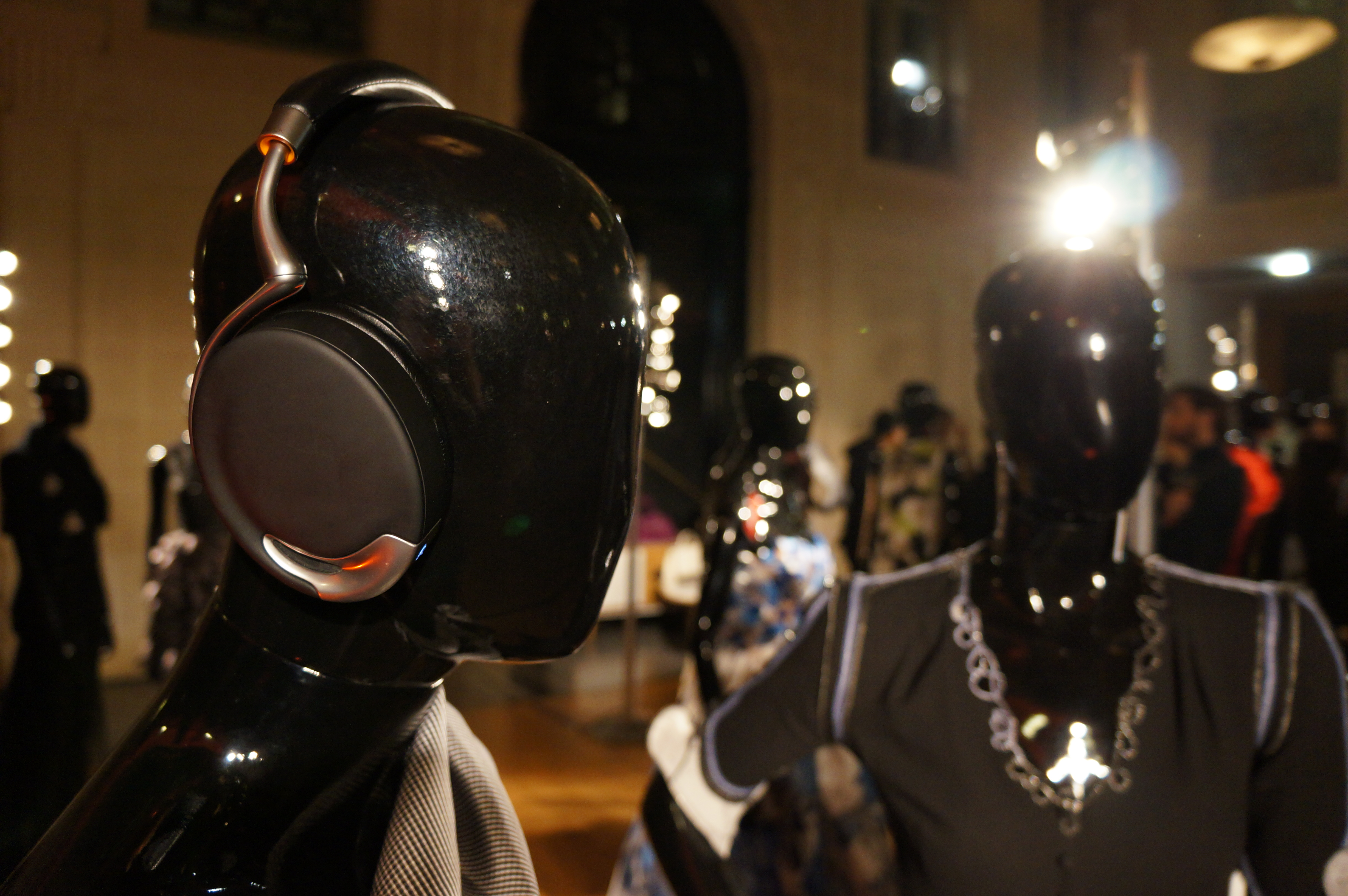 Parrot ZIK headphones - Black